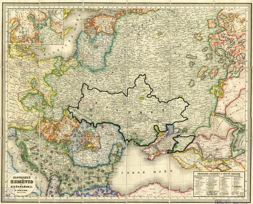 Ethnographic map "Slavic lands," done by Pavel Šafařík in 1842 (with selected ethnographic ukrainian habitat).